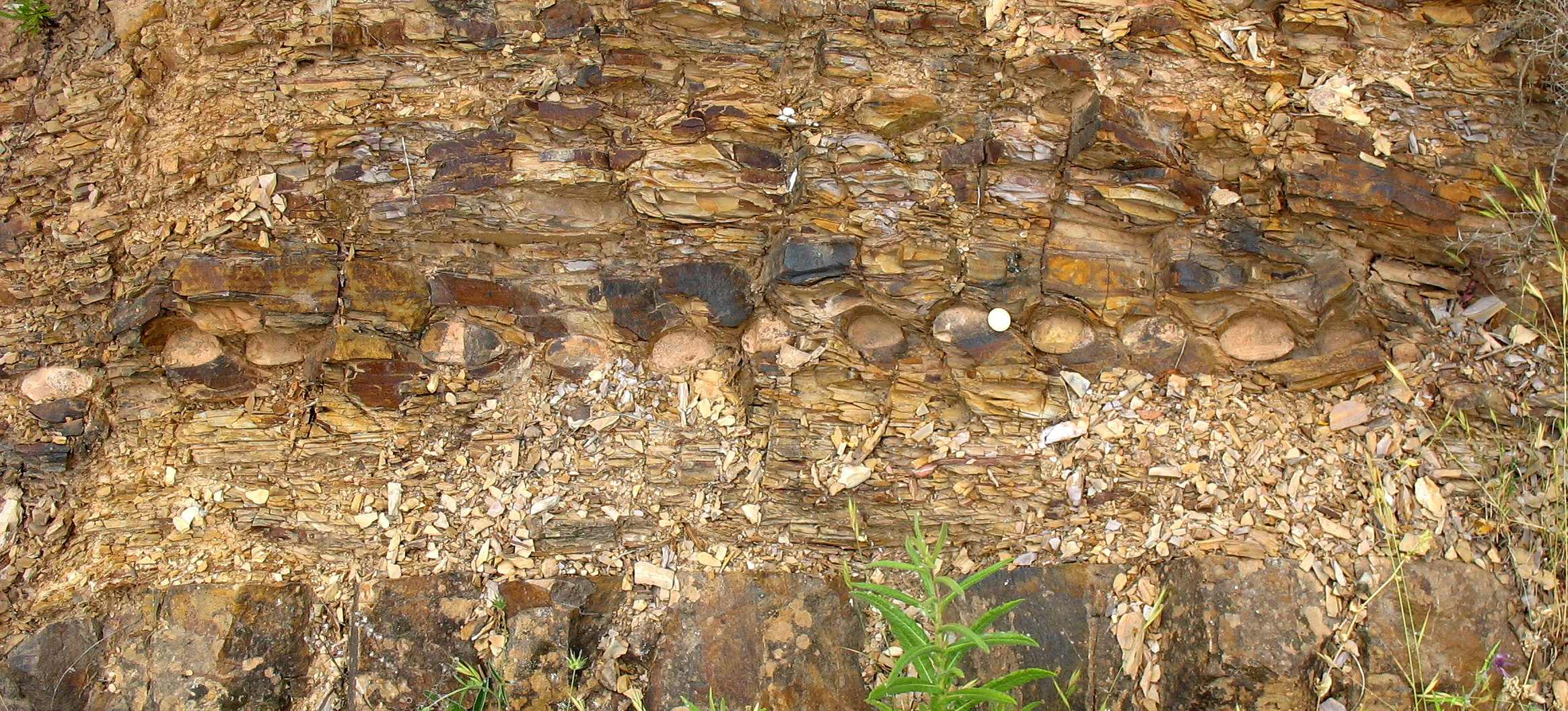 Boudinage. Mira Formation (Baixo Alentejo Flysch Group, late Visean to early Bashkirian). Near the waterfall of Pego do Inferno, Freguesia de Santo Estevão, Tavira, Algarve, Portugal. (Scale coin: 1 EUR, Ø 23,25 mm)